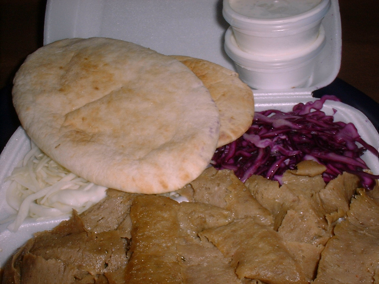 Döner kebab in UK. {Original text: Image was taken by myself. I hereby release it into the public domain according to the license above.)